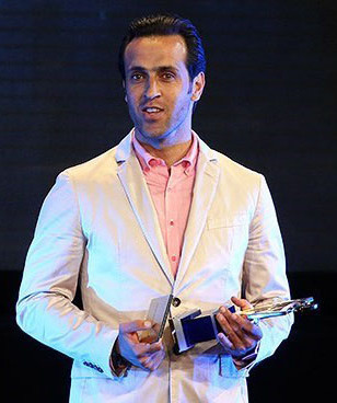 Ali Karimi received a gift in Iran Premier League Annual Awards Ceremony in Milad Tower.